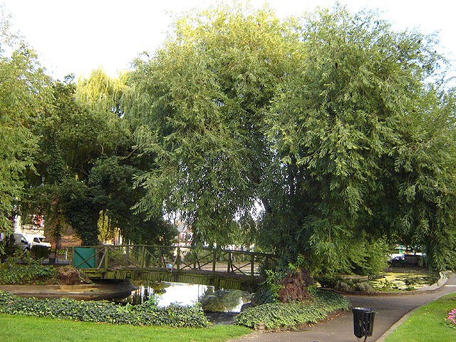 Clapton Ponds, Lower Clapton, Hackney, London. 19 September 2005. Photographer: Fin Fahey